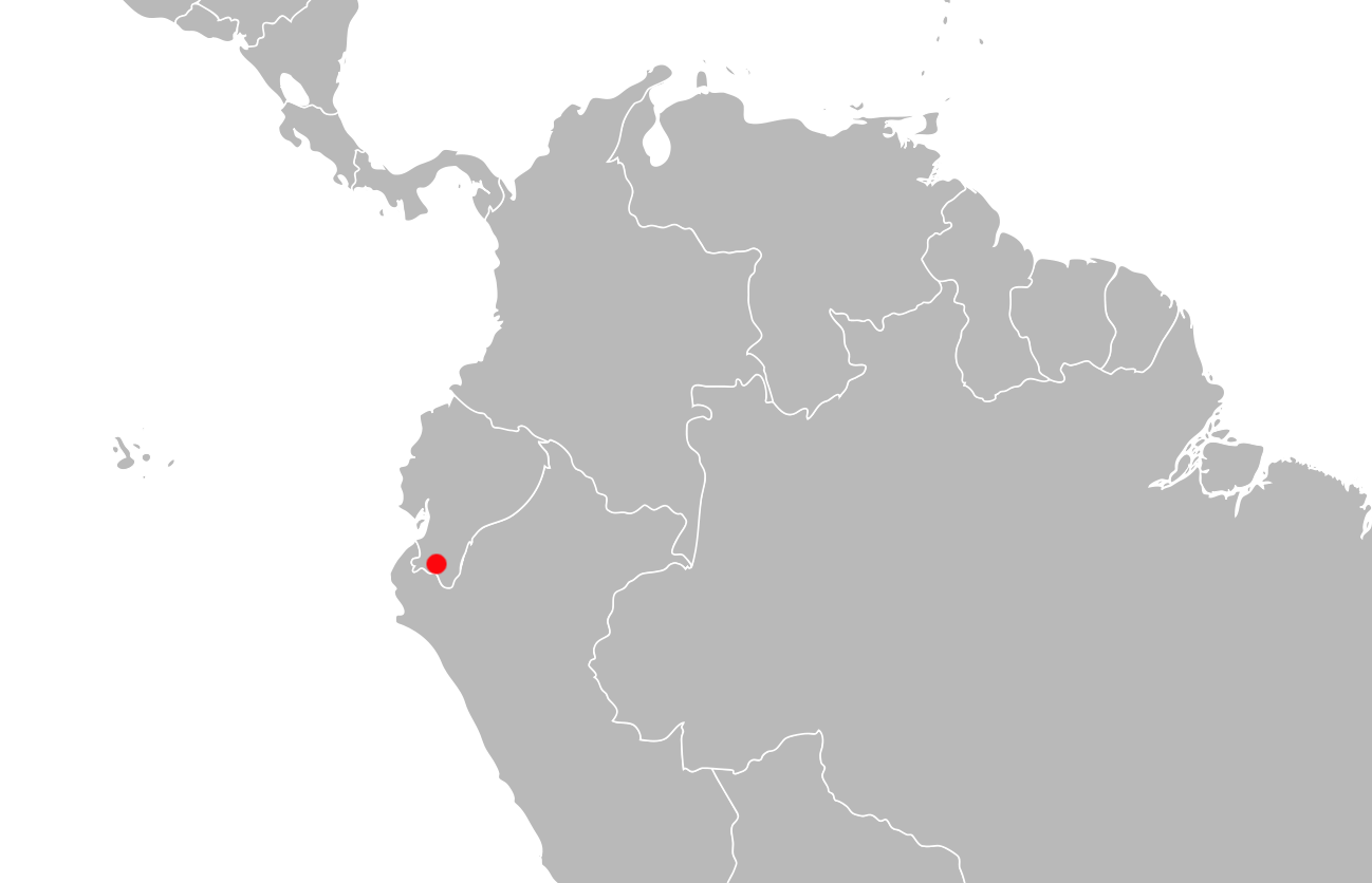 Only known collection site of the rodent Lagidium ahuacaense.